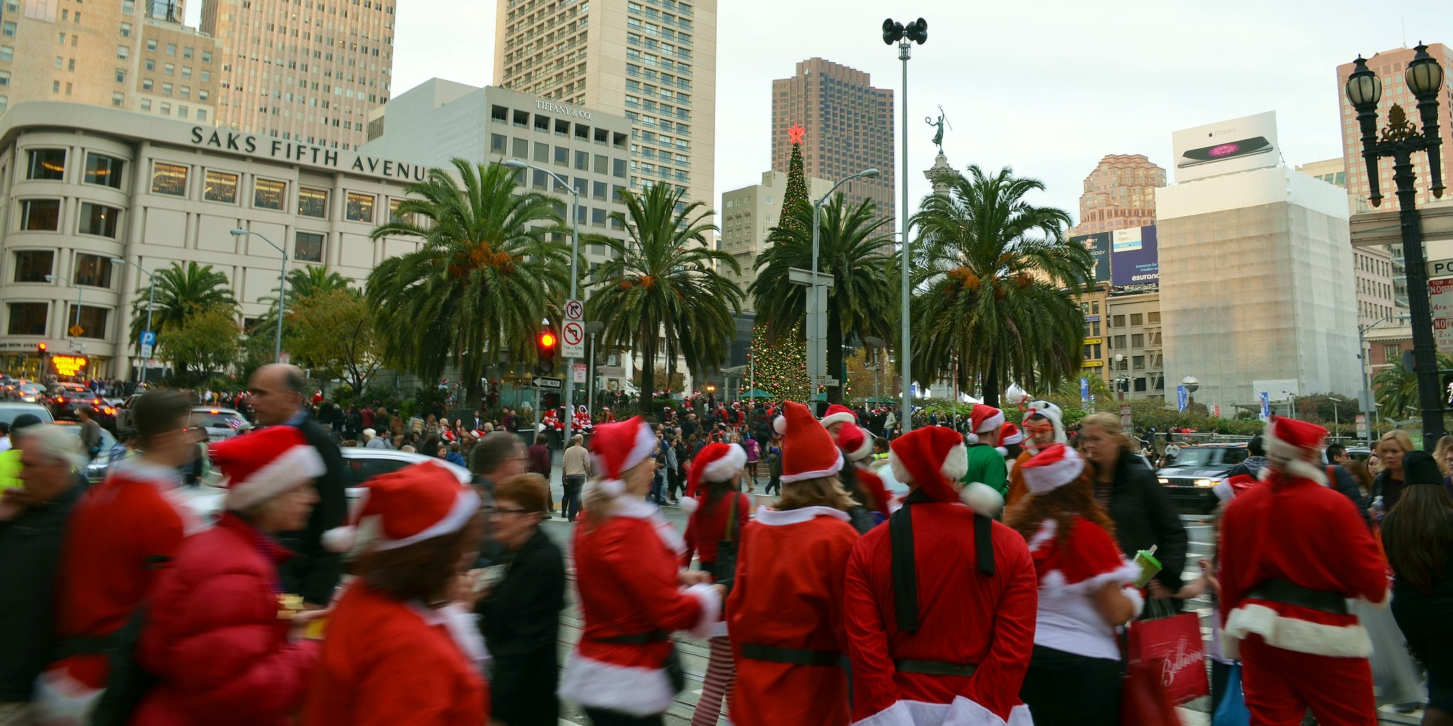 SantaCon 2014 at Union Square, San Francisco.